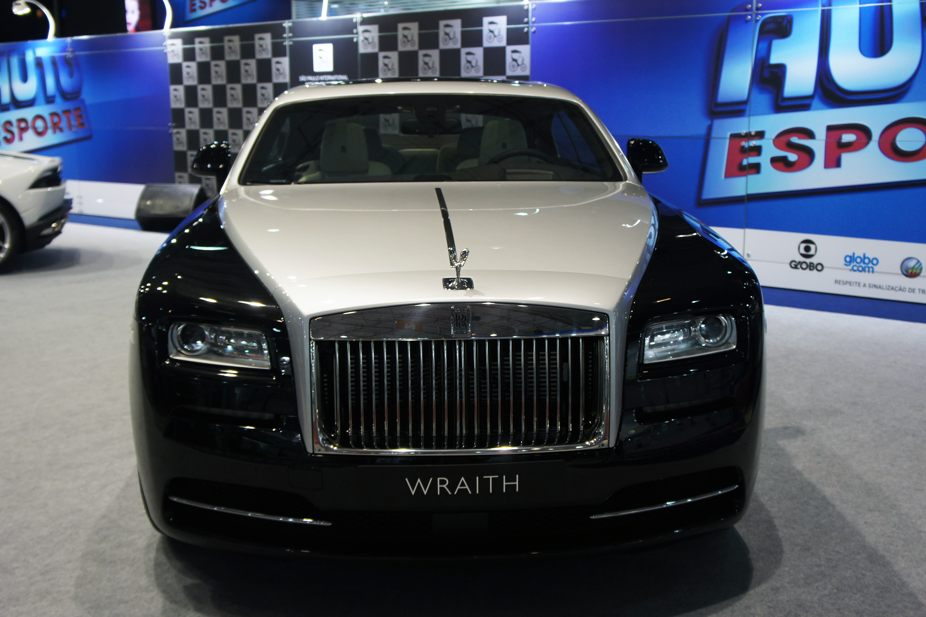 Rolls-Royce Wraith exhbited at the Salão Internacional do Automóvel 2014 São Paulo, Brazil